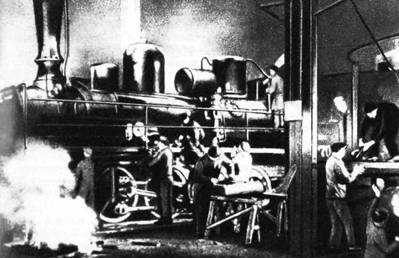 The first communist subbotnik was held on April 12, 1919, by railwaymen of the Sortirovochnaya marshalling yards of the Moscow-Kazan Railway.